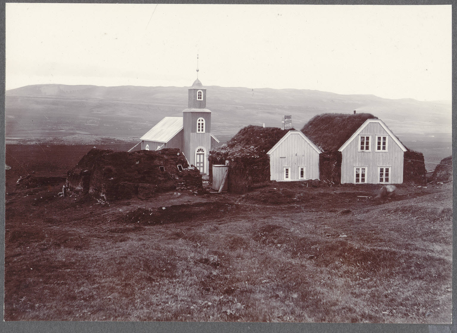 Collection: Icelandic and Faroese Photographs of Frederick W.W. Howell, Cornell University Library Title: Mælifell. Date: ca. 1900 Place: Mælifell (Skagafjarðarsýsla, Iceland : Farmstead) Medium: collodion print Repository: Fiske Icelandic Collection, Rare & Manuscript Collections, Cornell University Library Accession: 1923.4.65 URL: Persistent URI: There are no known U.S. copyright restrictions on this image. The digital file is owned by the Cornell Univeristy Library which is making it freely available with the request that, when possible, the Library be credited as its source. We had some help with the geocoding from Web Services by Yahoo!